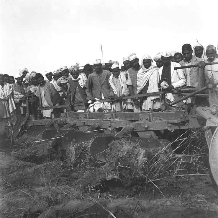 Tractor-operation under the Latifpur land-reclamation Scheme. 30.12.47